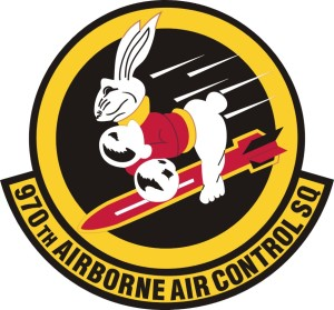 970th Airborne Air Control Squadron emblem